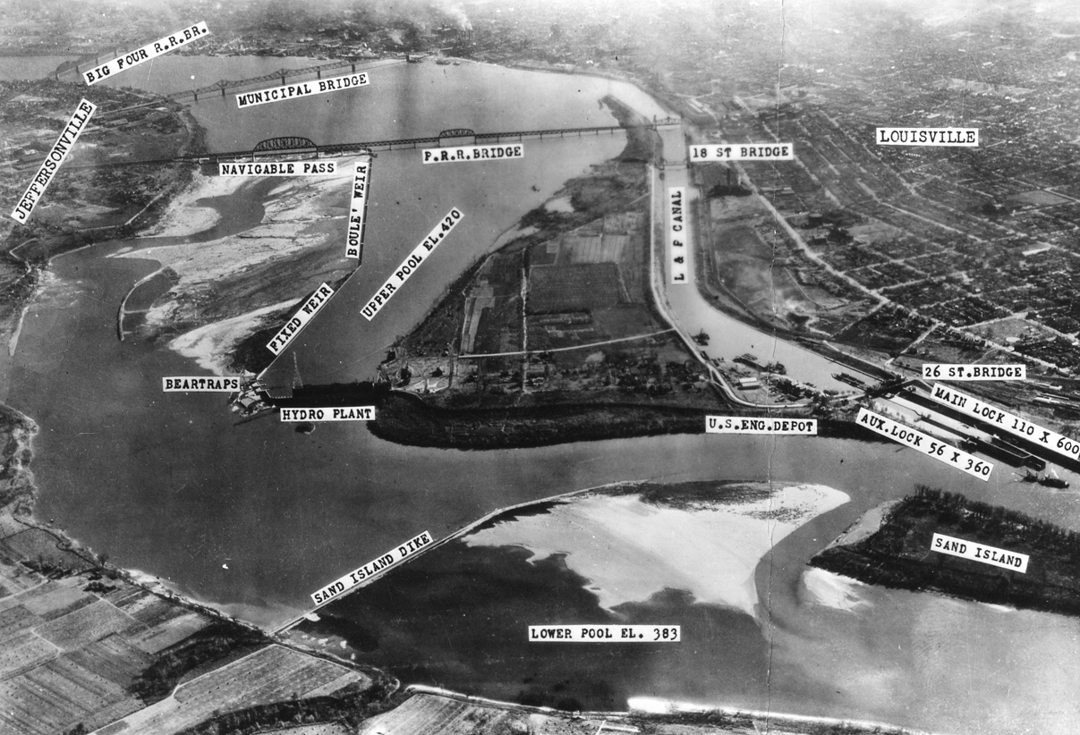 Aerial view of Falls of the Ohio and Locks and Dam No 41 (looking SE) Louisville, Kentucky